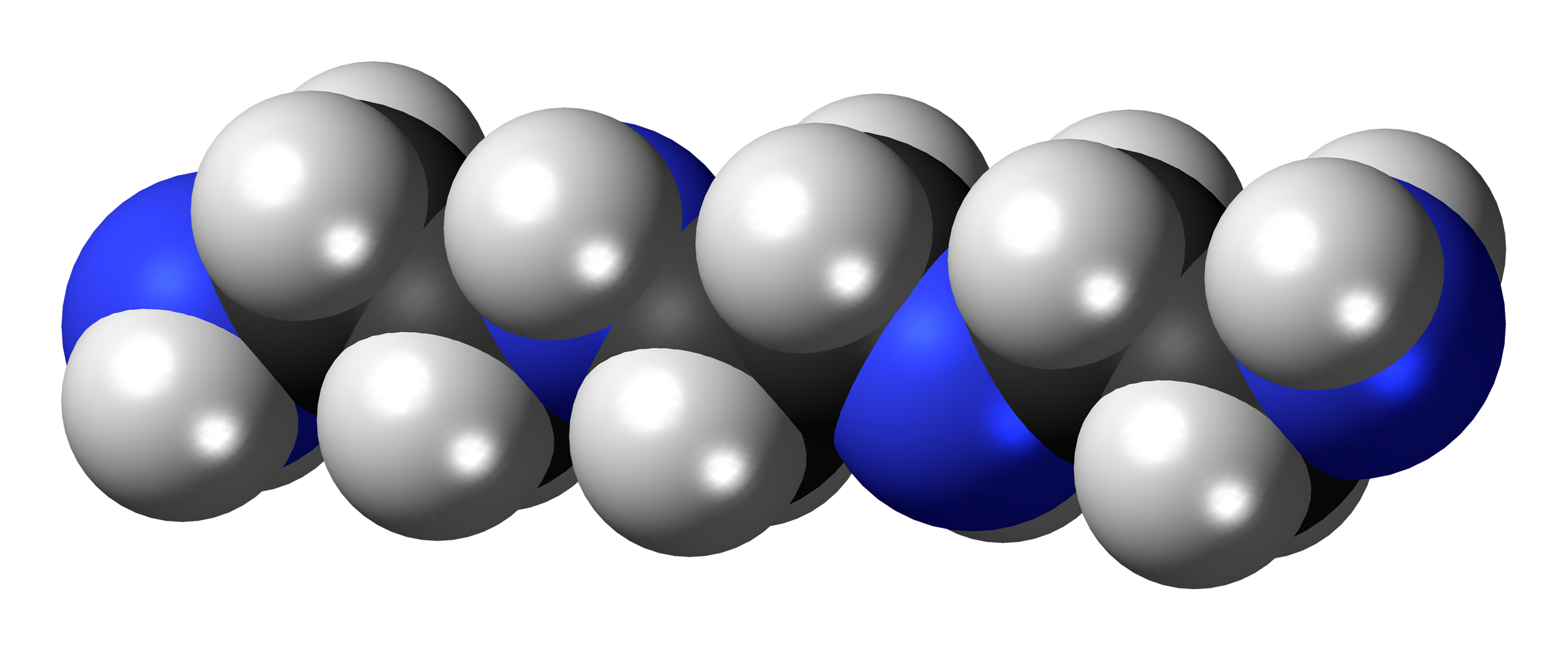 Space-filling model of the triethylenetetramine molecule, an amine used as a ligand. Colour code: Carbon, C: black Hydrogen, H: white Nitrogen, N: blue